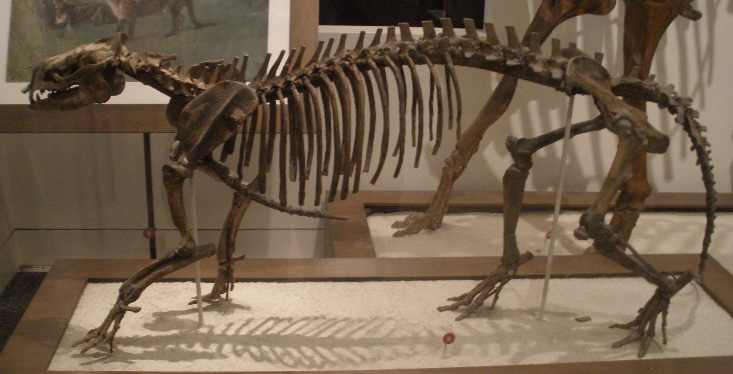 Fossil of Phenacodus primaevus, a fossil condylarth DateApril 2008Sourcetook the foto on the "American Museum of Natural History" in New YorkAuthorGhedoghedoPermission (Reusing this file)